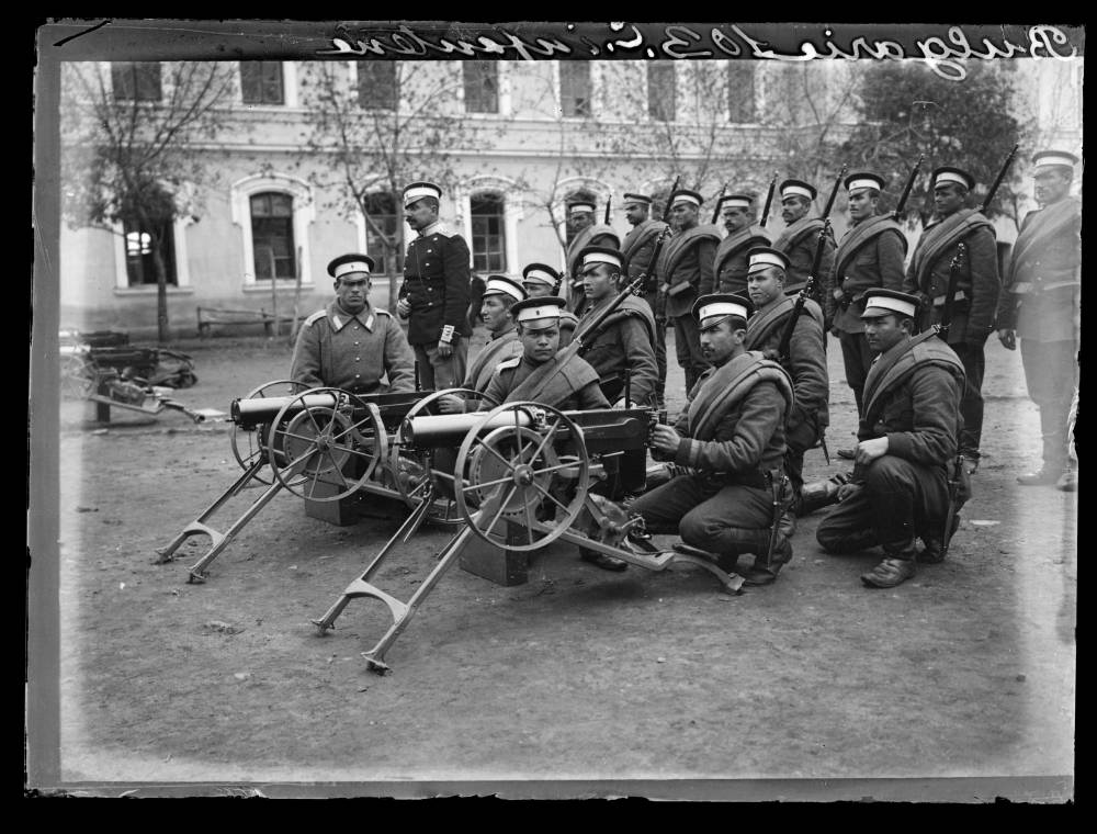 Accession Number: 1975:0112:3823 Maker: Ch. Chusseau-Flaviens Title: Bulgarie infanterie Date: ca. 1908 Medium: negative, gelatin on glass Dimensions: 9 x 12 cm. George Eastman House Collection General information about the George Eastman House Photography Collection is available at [1]. For information on obtaining reproductions see: [2]. "Armies of the Balkan Wars 1912-13", by Phillip Jowett reproduces this photograph. He identifies the machine guns as Maxim MG08s on wheeled carriages and suggests, based on the uniform facings, that the soldiers belong to the 6th (HRH King Ferdinand's) Infantry Regiment.